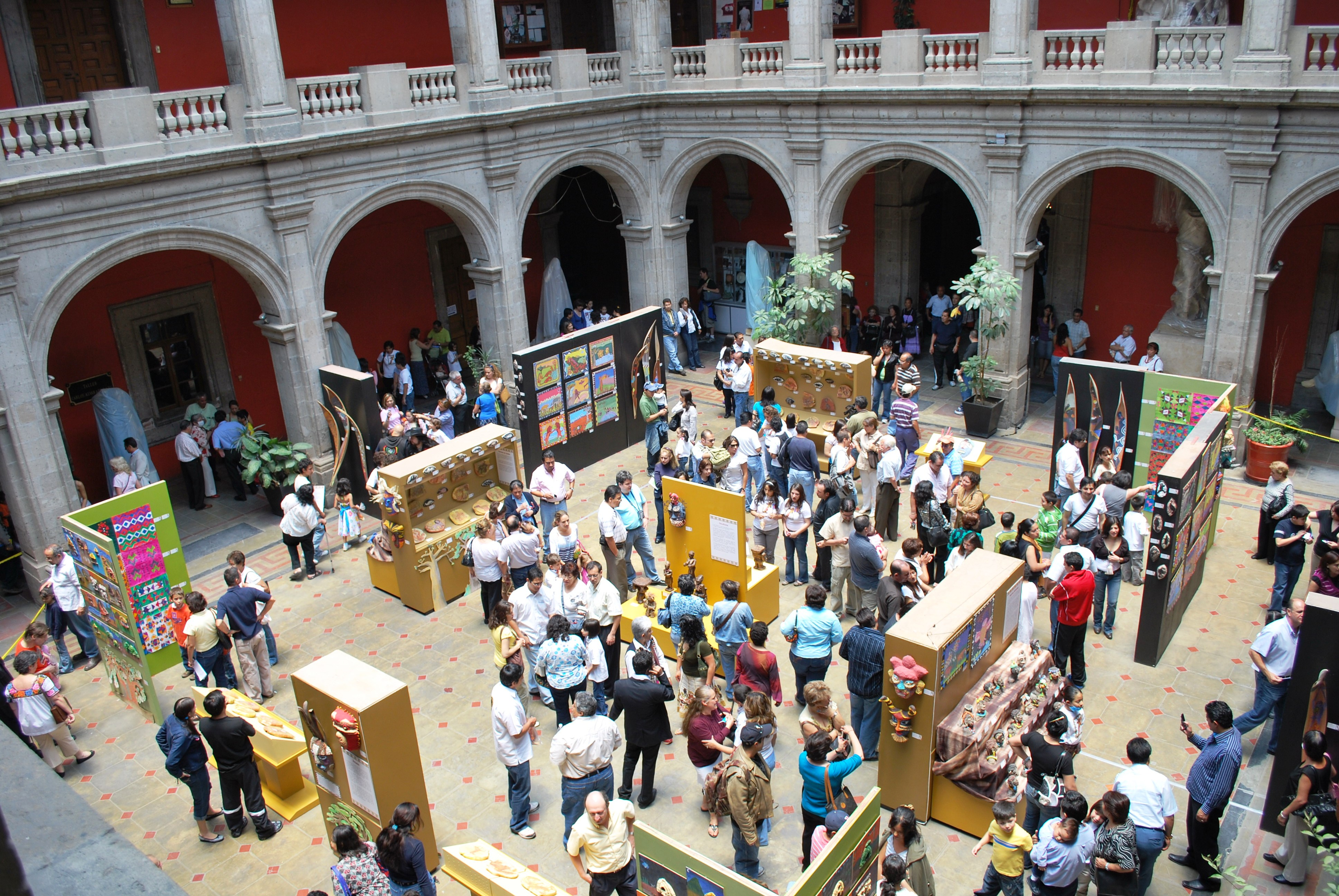 Expostion of children's art from Africa at the Academy of San Carlos building in the historic center of Mexico City